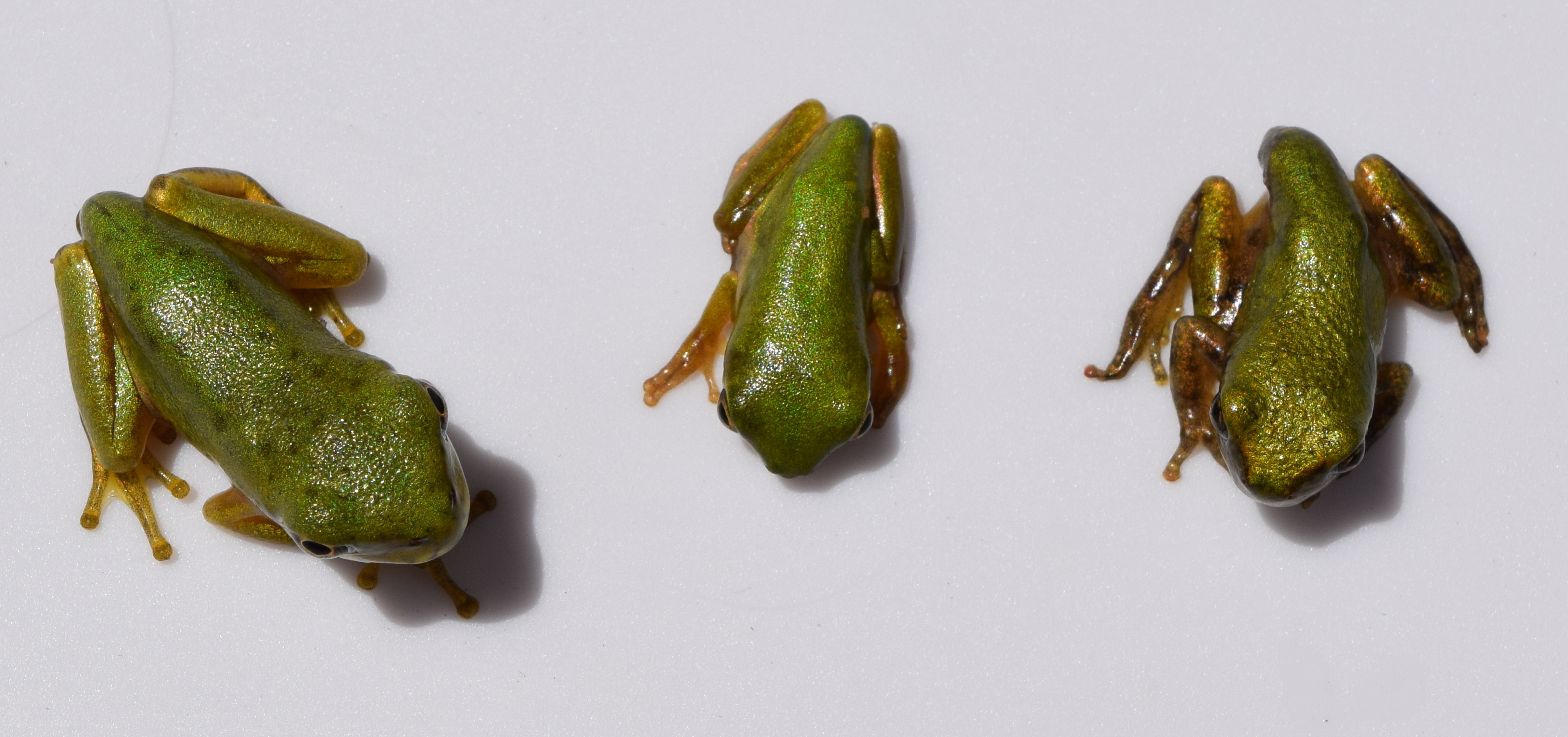 Three Hyla species (treefrog) metamorphs at the University of Mississippi Field Station. Left: Hyla gratiosa (barking treefrog), center: Hyla cinerea (American green treefrog), right: Hyla chrysoscelis (Cope's gray treefrog)